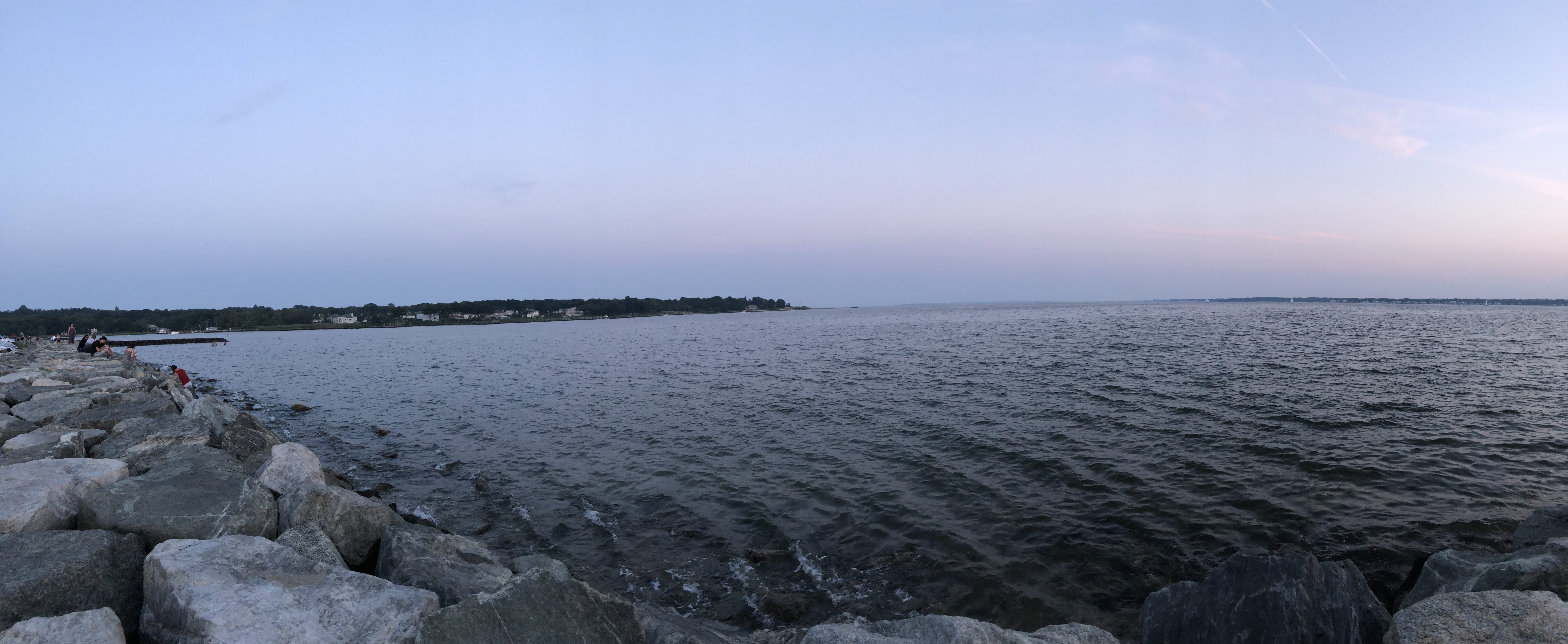 A view of Greenwich Bay from the edge of Oakland Beach, Rhode Island, neighboring Warwick.